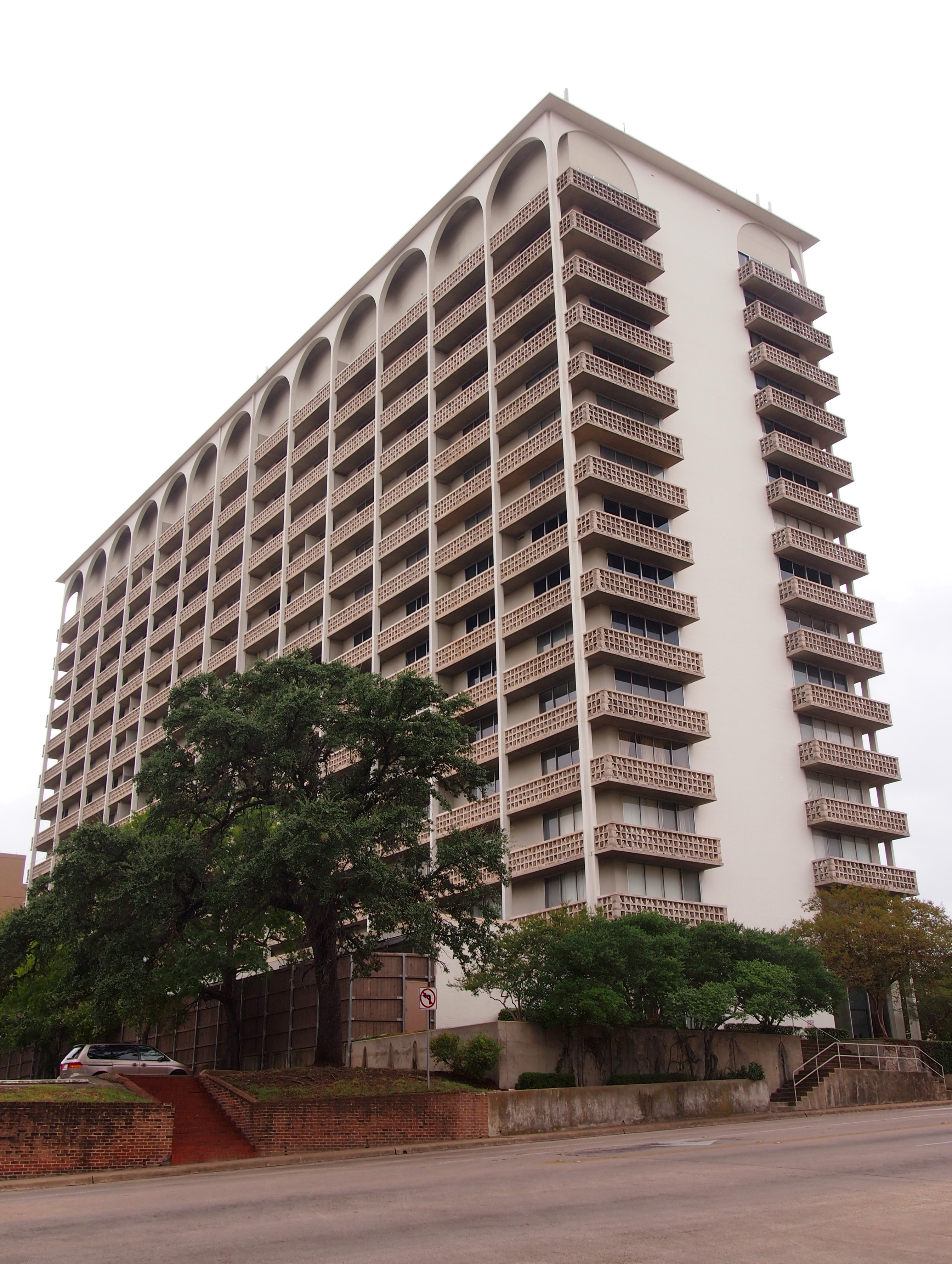 Cambridge Tower, Austin, TX, from MLK Blvd.